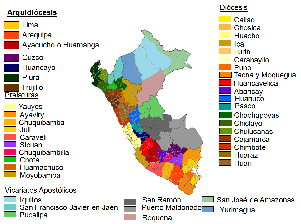 Map of the Roman Catholic Jurisdictions from Perú.